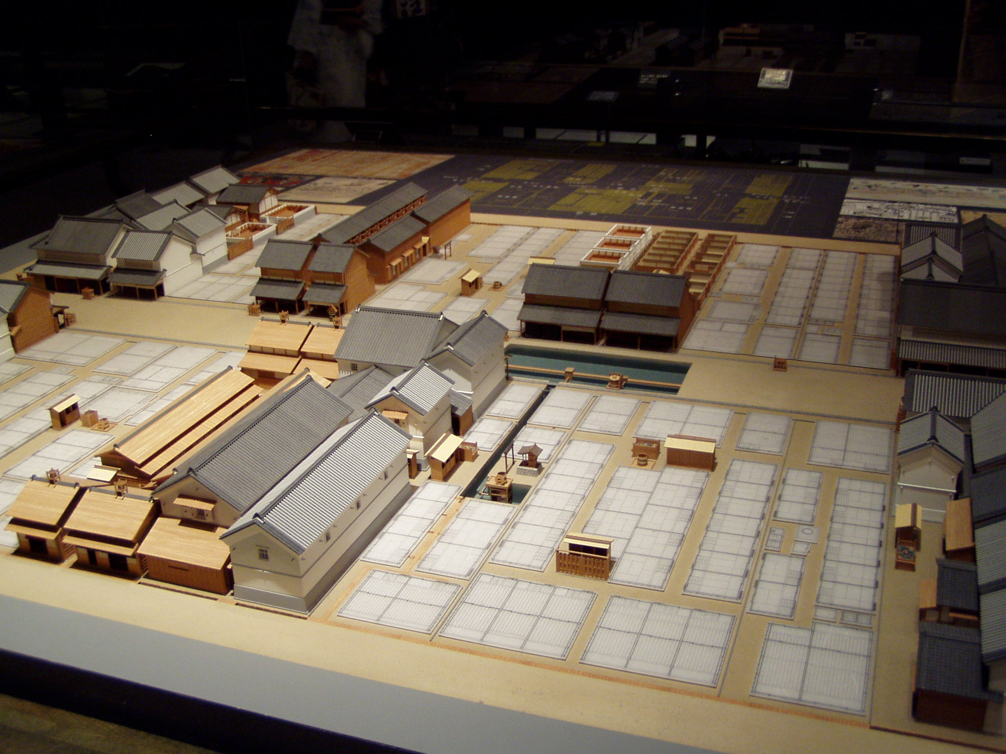 Edo. Ward. Model in Edo-Tokyo Hakubutsukan